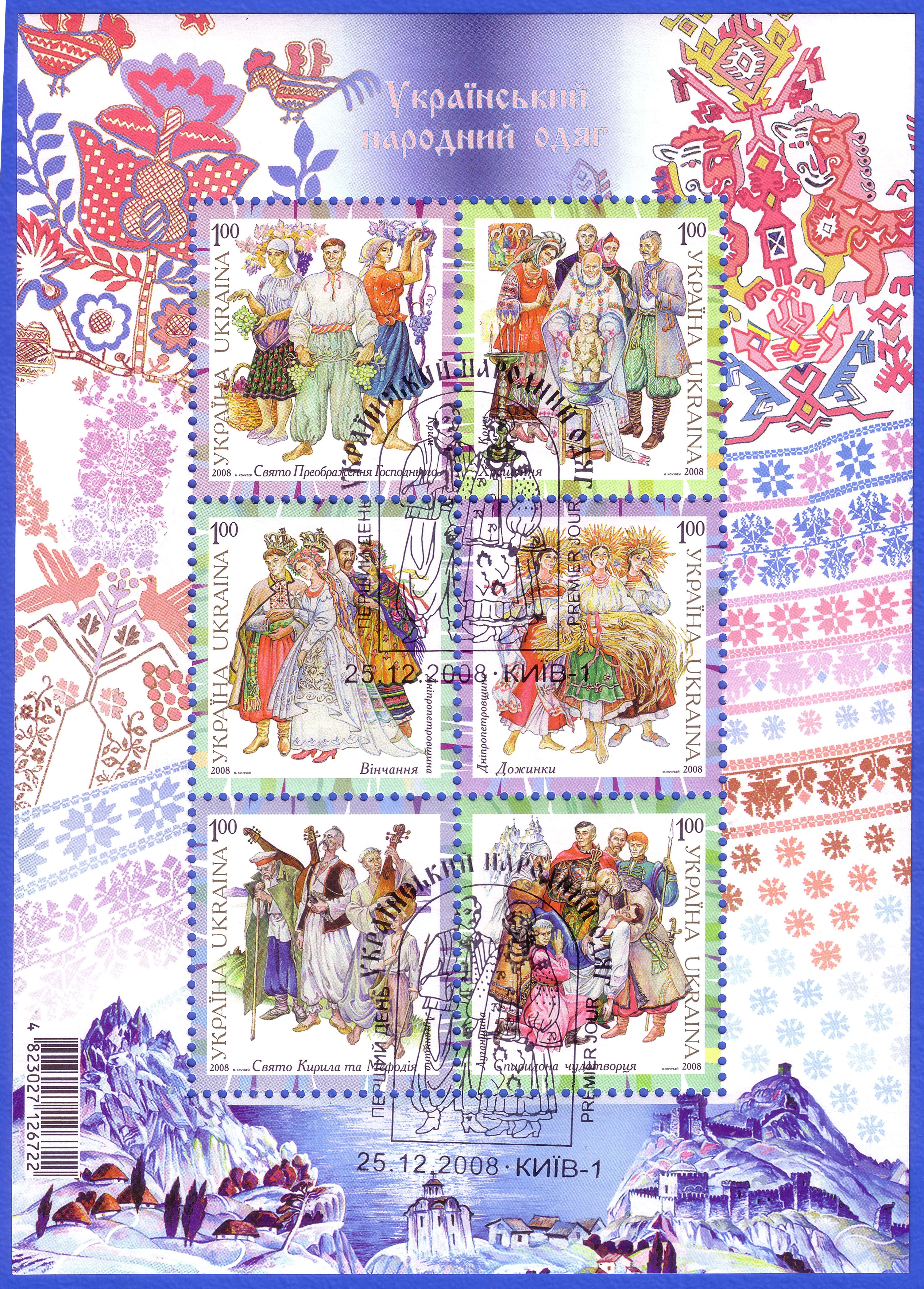 Stamp page (6 stamps) with Ukrainian traditional clothing. 2008.